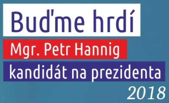 Campaign logo of Petr Hannig for the Czech presidential election, 2018